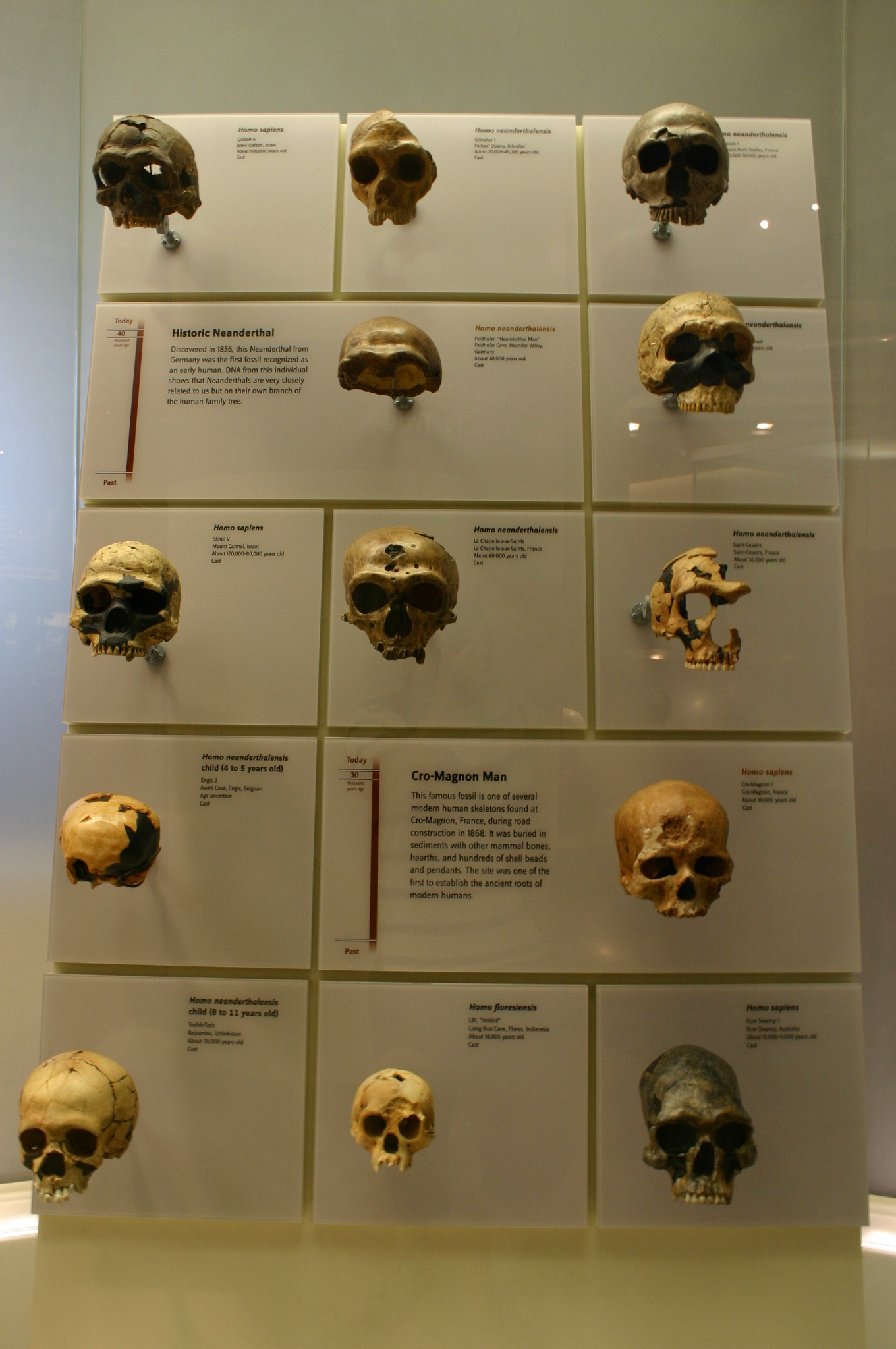 Taken at the David H. Koch Hall of Human Origins at the Smithsonian Natural History Museum.